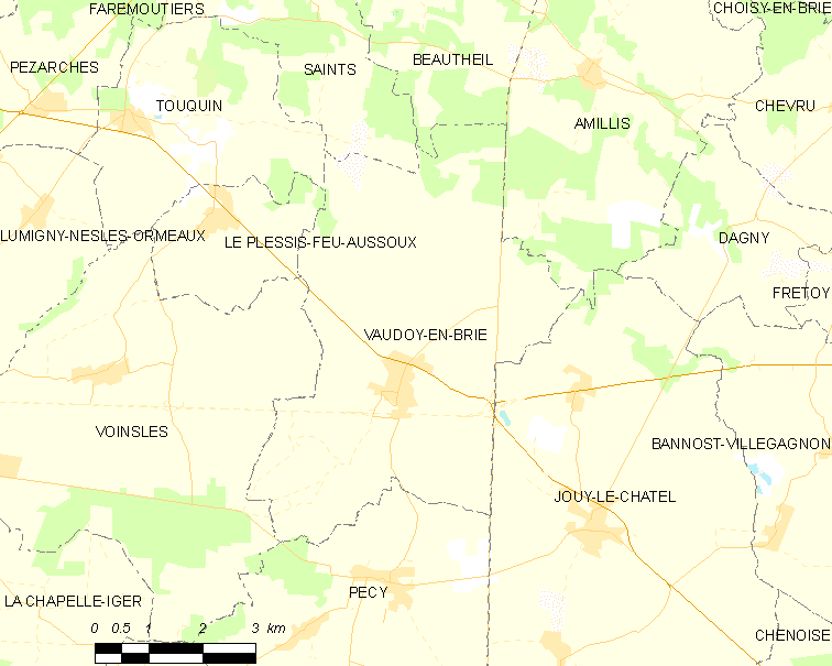 Map of French municipality Vaudoy-en-Brie